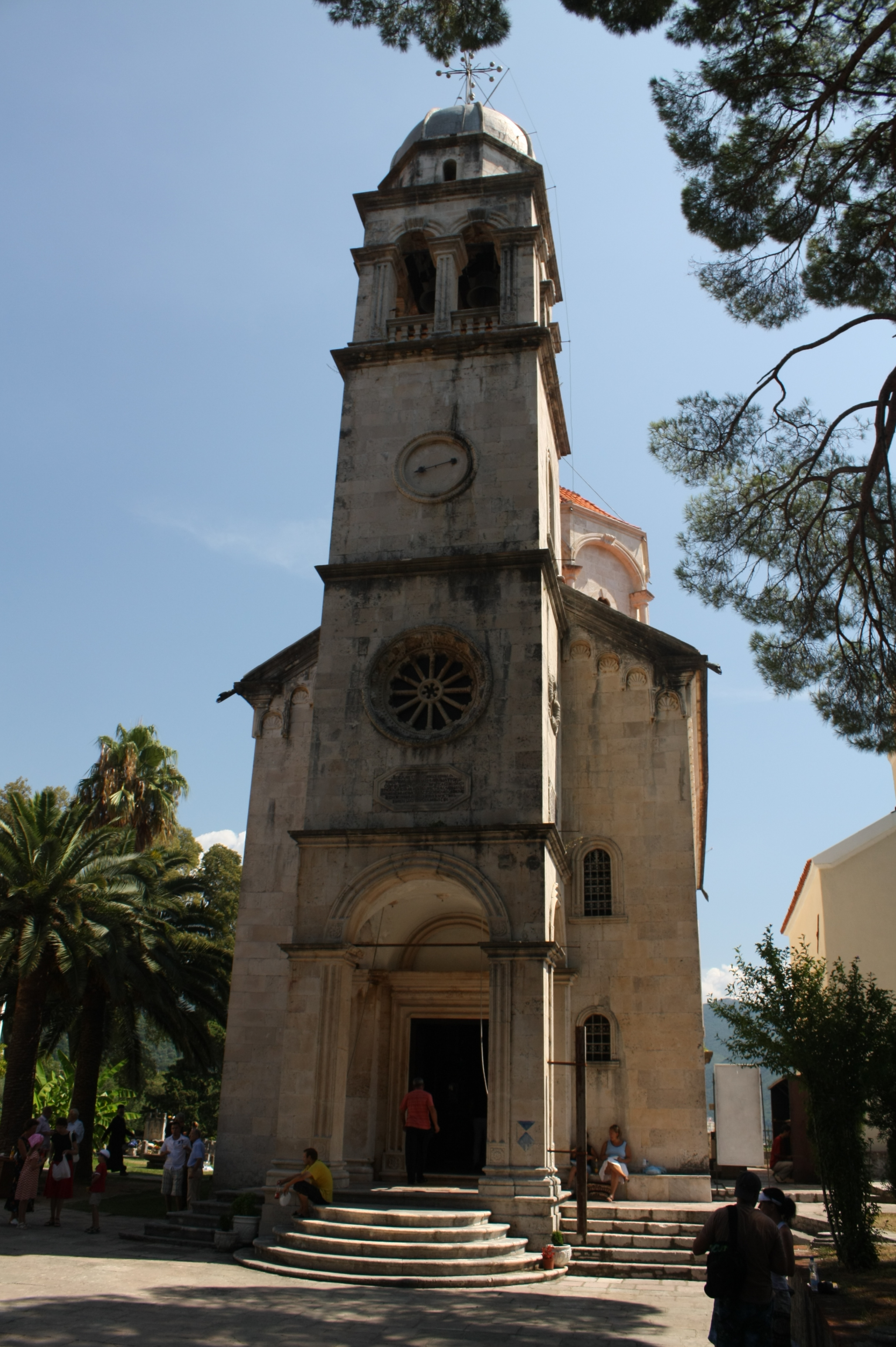 Herceg Novi, Montenegro - Savina monastery